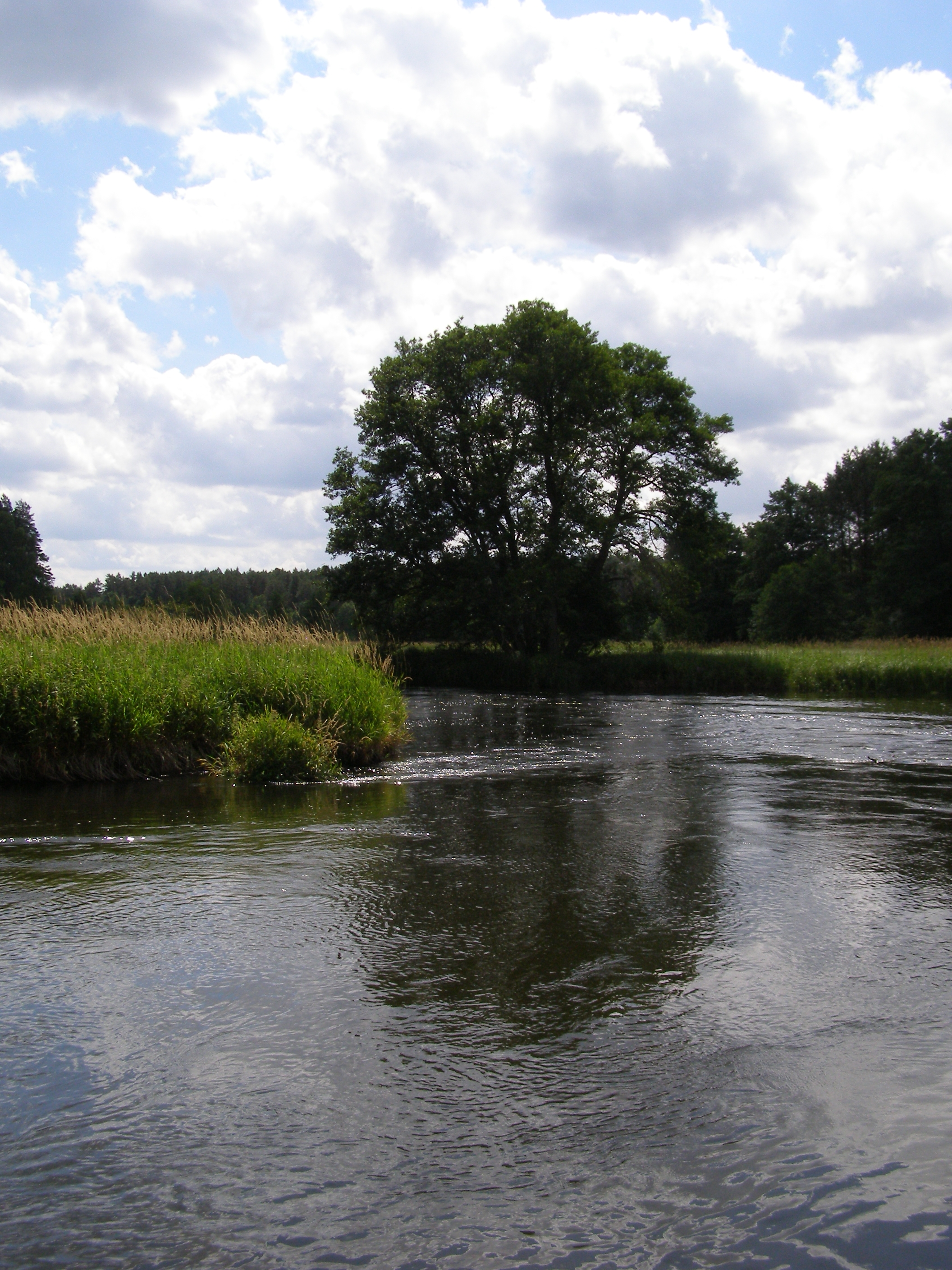 The Brda river near the village of Kiełpiński Most